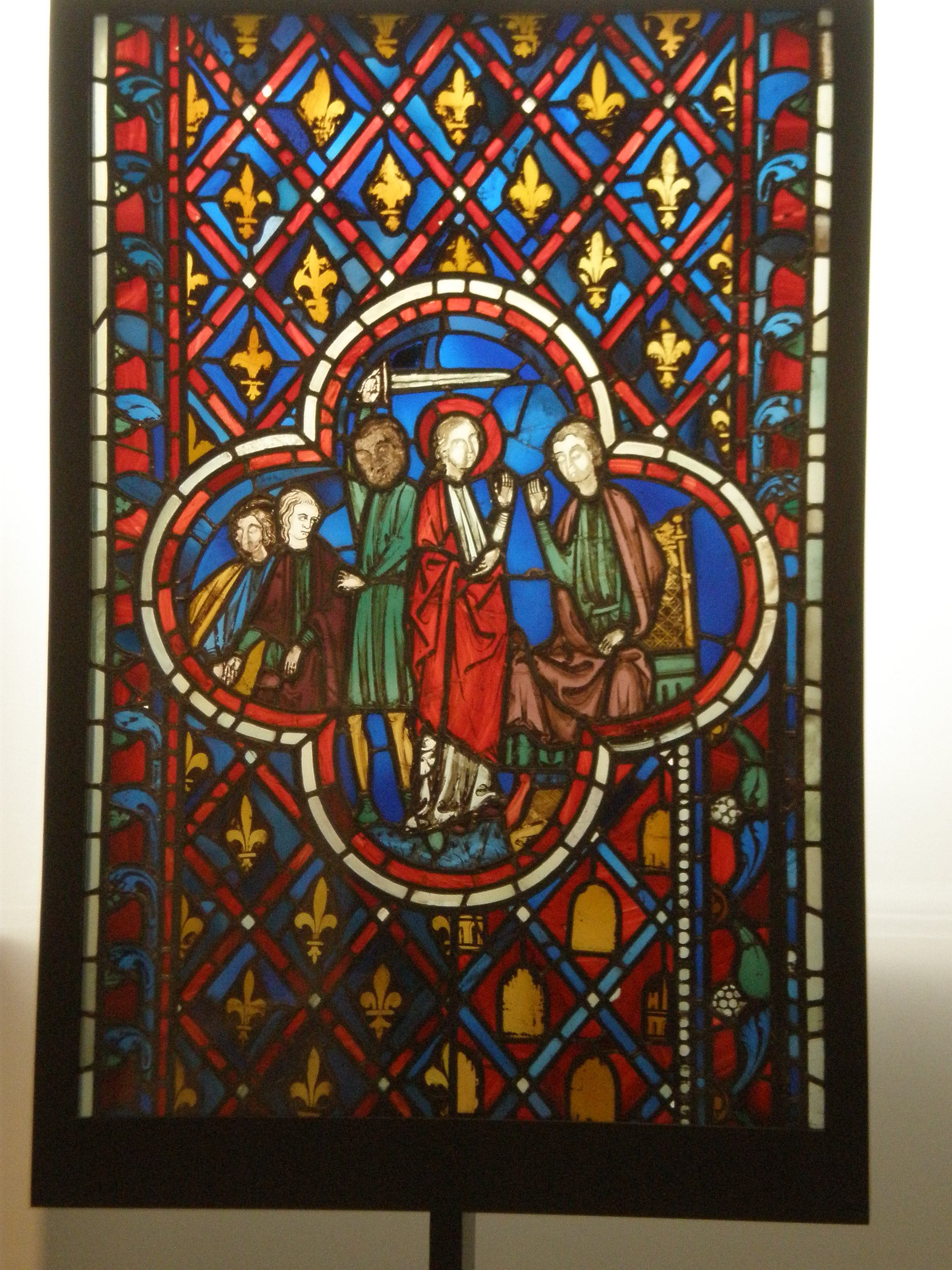 Stained glass Scene from the story of Daniel About 1243-1248 Paris, Ile de France This medallion originally came from the Sainte-Chapelle in Paris. King Louis IX of France built the chapel to house the Crown of Thorns, which he had acquired in 1239. This was a relic of Christ�s passion. The Sainte-Chapelle was begun in 1241 and dedicated in 1248. It has been described as a huge reliquary in stone. Architecture, sculpture and stained glass combine to produce an effect of astonishing richness. It is often viewed as the archetypal High Gothic construction. The vast glazing programme has suffered, however. During the first half of the 19th century much glass was removed. Later, it was replaced with modern copies or inventions. The prophet Daniel, with halo, is shown interceding with Arioch, the captain of King Nebuchadnezzar�s guard. Arioch had been charged with killing all the wise men of Babylon (Daniel 2: 14�15, 24). To the left, behind Daniel, an executioner raises his sword to kill two of the wise men. The background consists of fleur-de-lis and castles within a diaper. This symbolises the alliance of France and Castile by the marriage of King Louis VIII and Blanche of Castile, parents of King Louis IX. The window, though, has been much restored and is made up from different panels. Given by Mr Henry Vaughan Collection ID: 1221-1864 This photo was taken as part of Britain Loves Wikipedia in February 2010 by David Jackson.